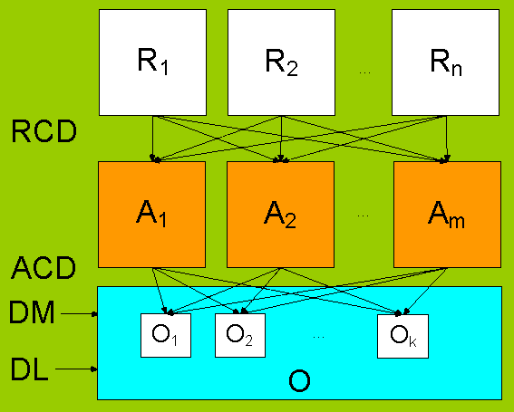 R = resource-categories RCD = Resource Cost Drivers A = activities ACD = Activity Cost Drivers O = Cost Object DM = Direct Material DL = Direct Labour